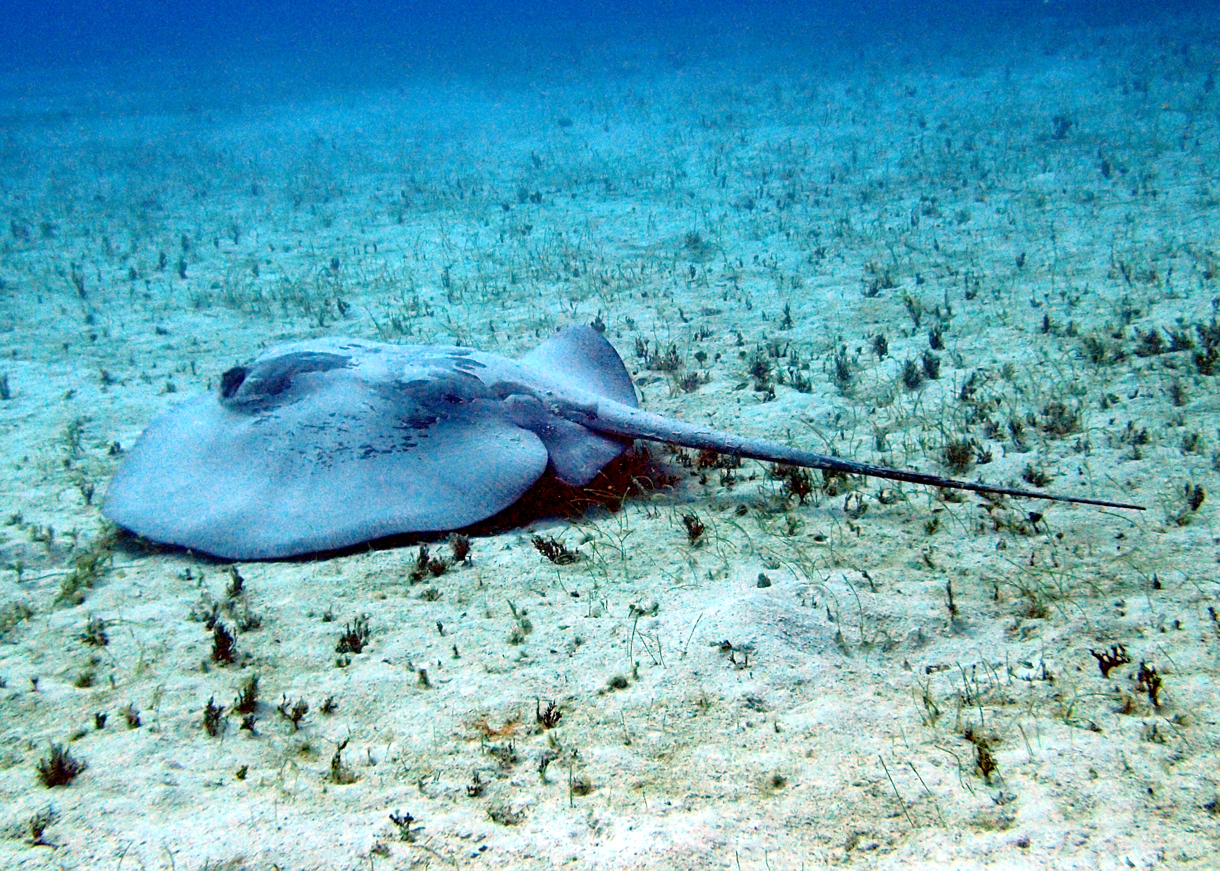 Caribbean whiptail stingray (Himantura schmardae) at Blackbird Caye, Belize.